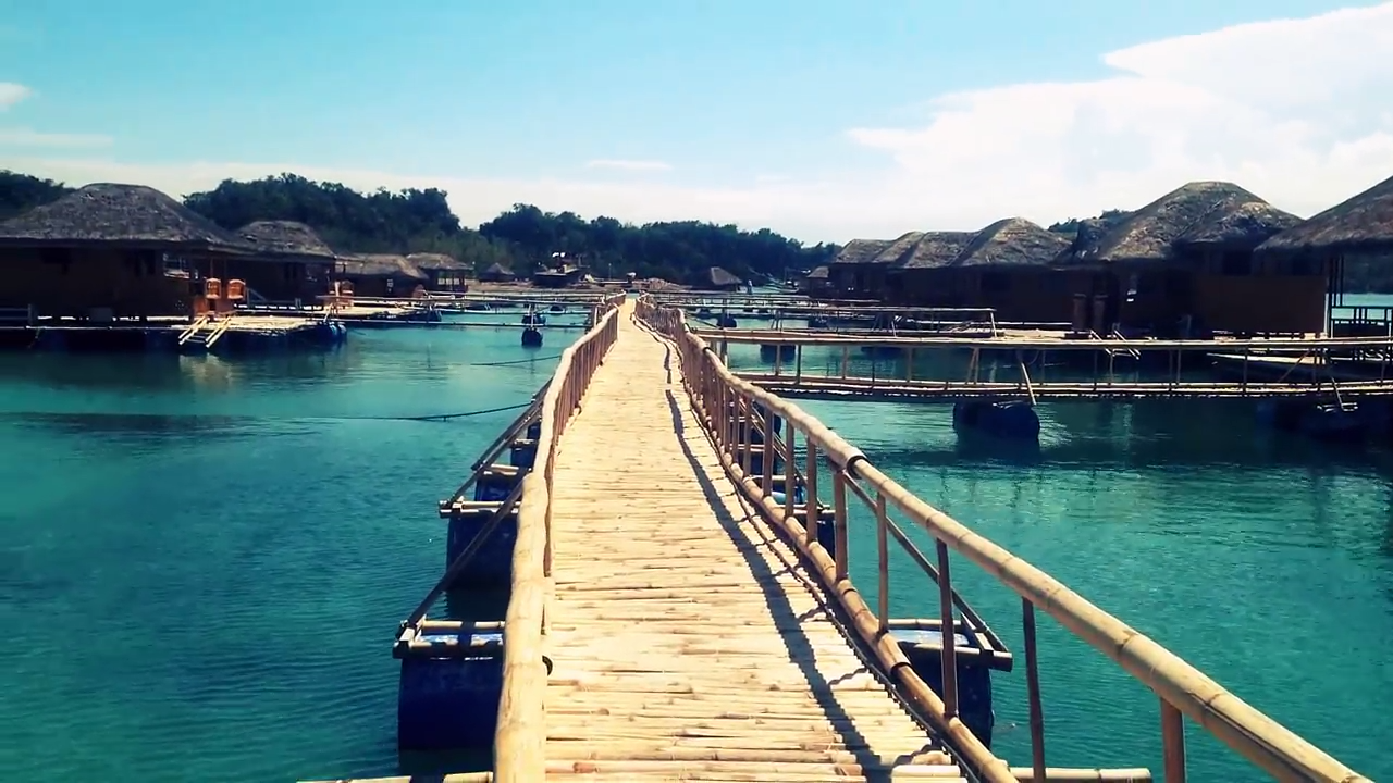 Grace Island Resort which is situated near Ambulong Island in San Jose, Occidental Mindoro